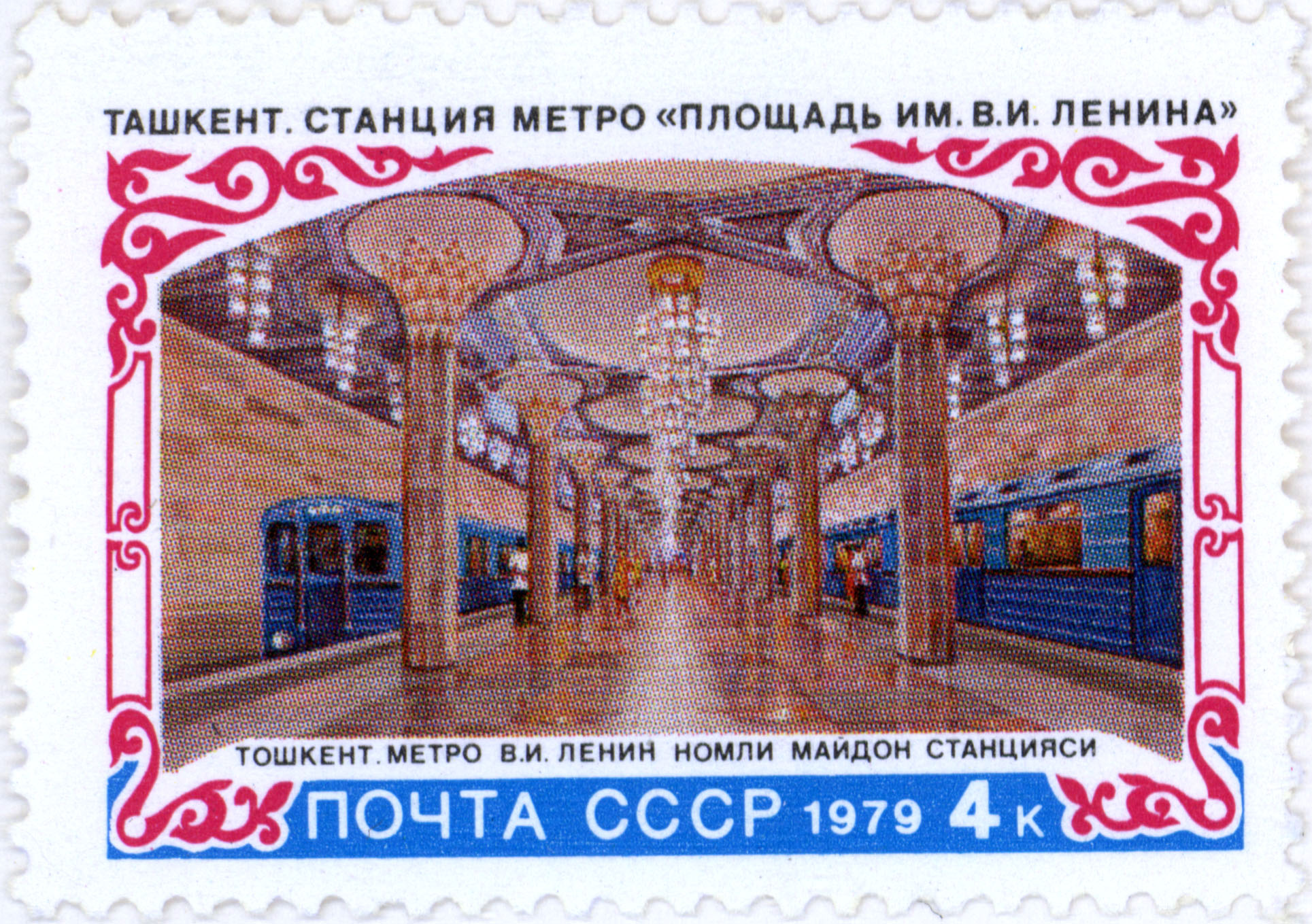 Tashkent Metro station Lenin square (now called Mustaqillik maydoni). USSR stamp, Tashkent, metro station Lenin square, 1979, 4 k.